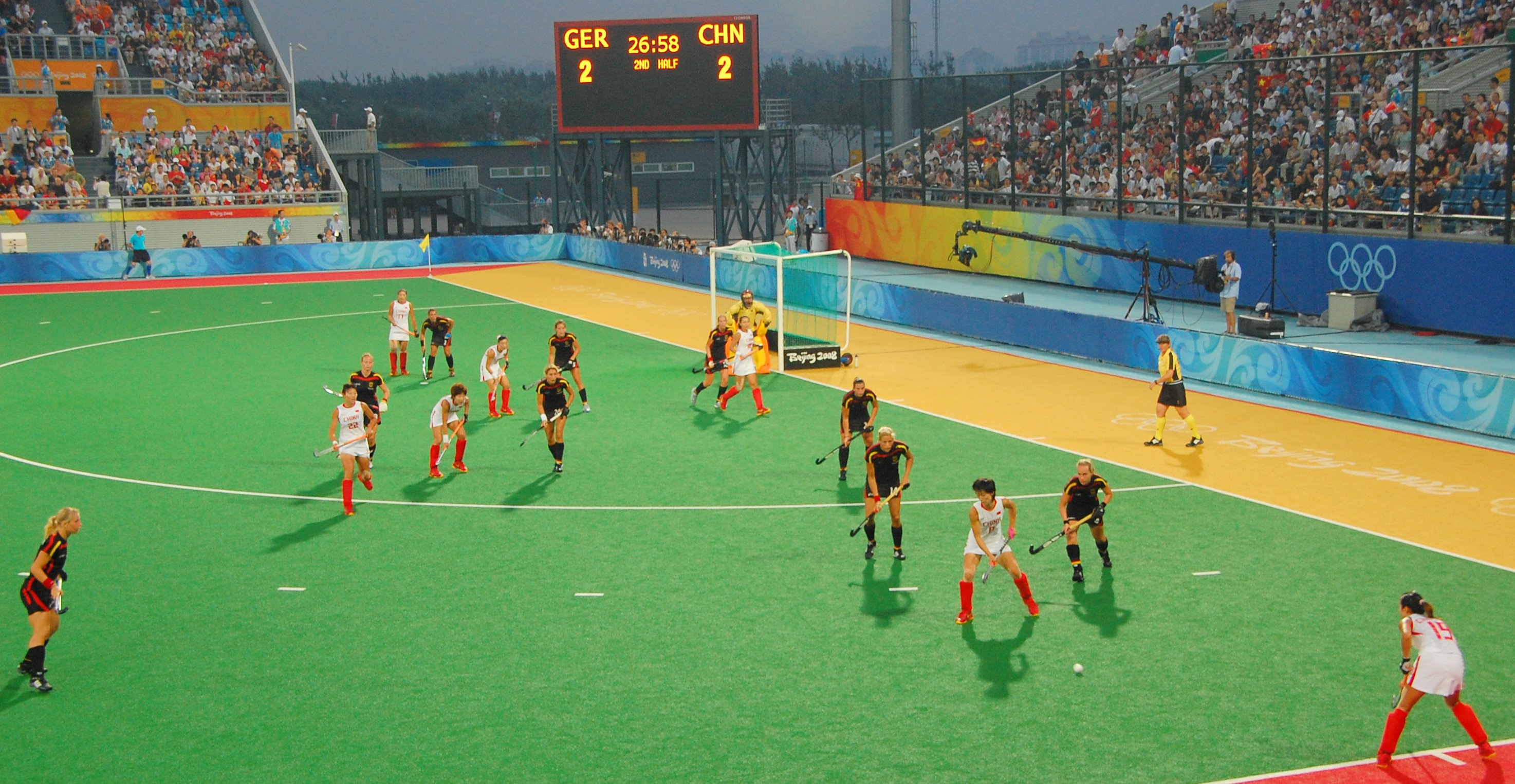 Field hockey (F) at the Beijing Olympics - Germany v. China, semi-final